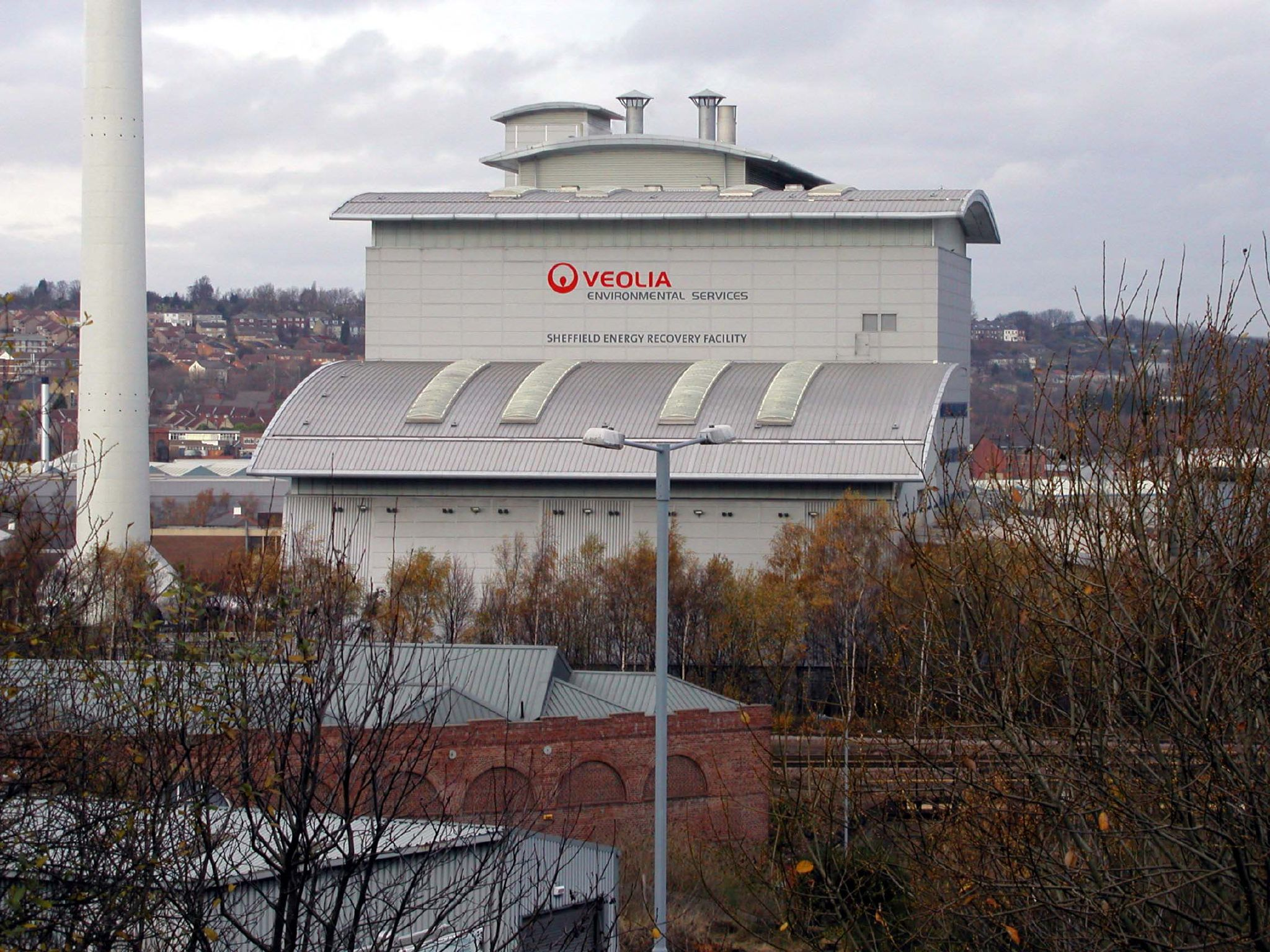 Sheffield Incinerator after rebuilding and under Veolia management.